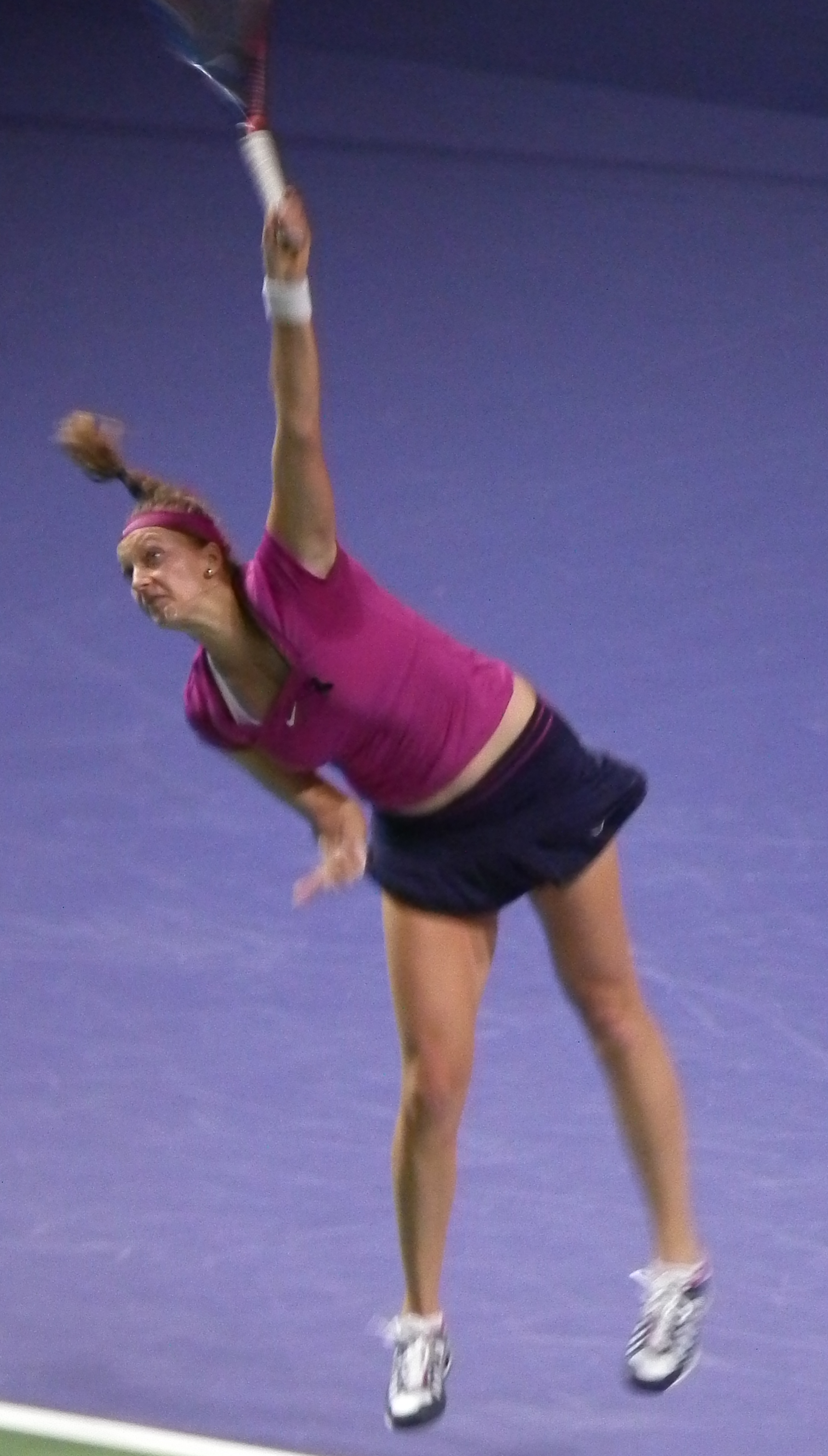 Petra Kvitová at the 2011 WTA Tour Championships, Istanbul